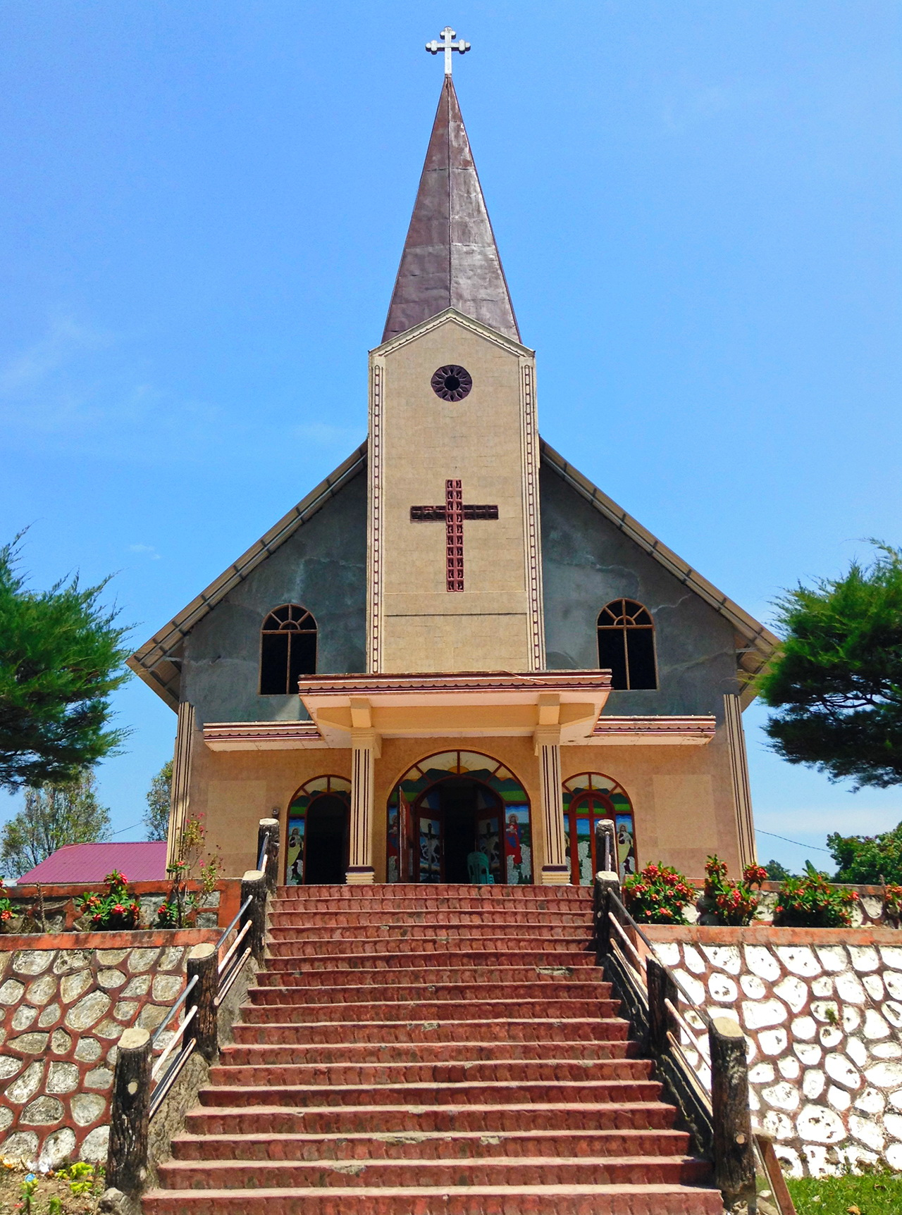 HKBP Balata, Res. Balata, Church in Tiga Balata, Jorlang Hataran, Simalungun